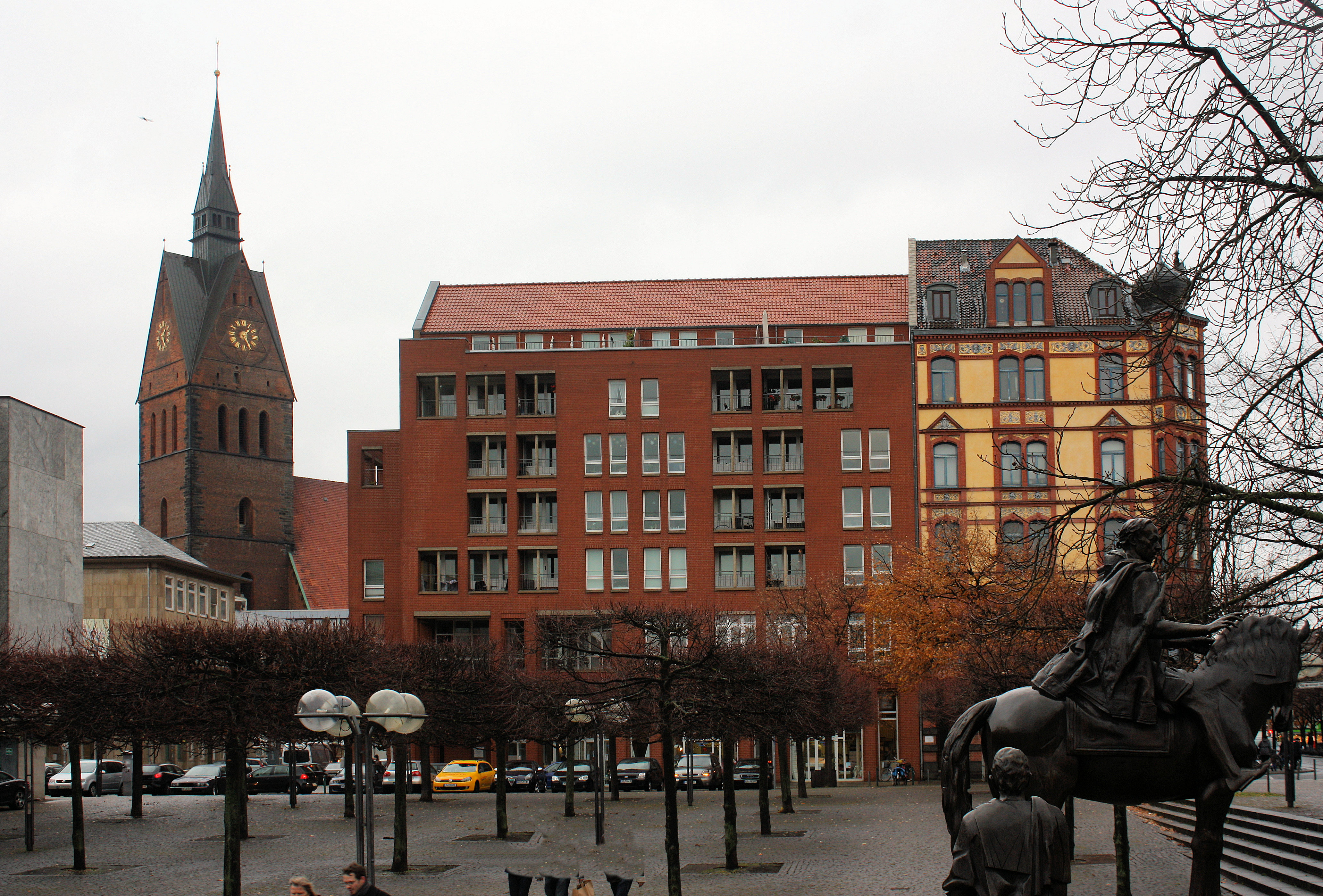 Hanover, the square "Platz der Göttinger Sieben"